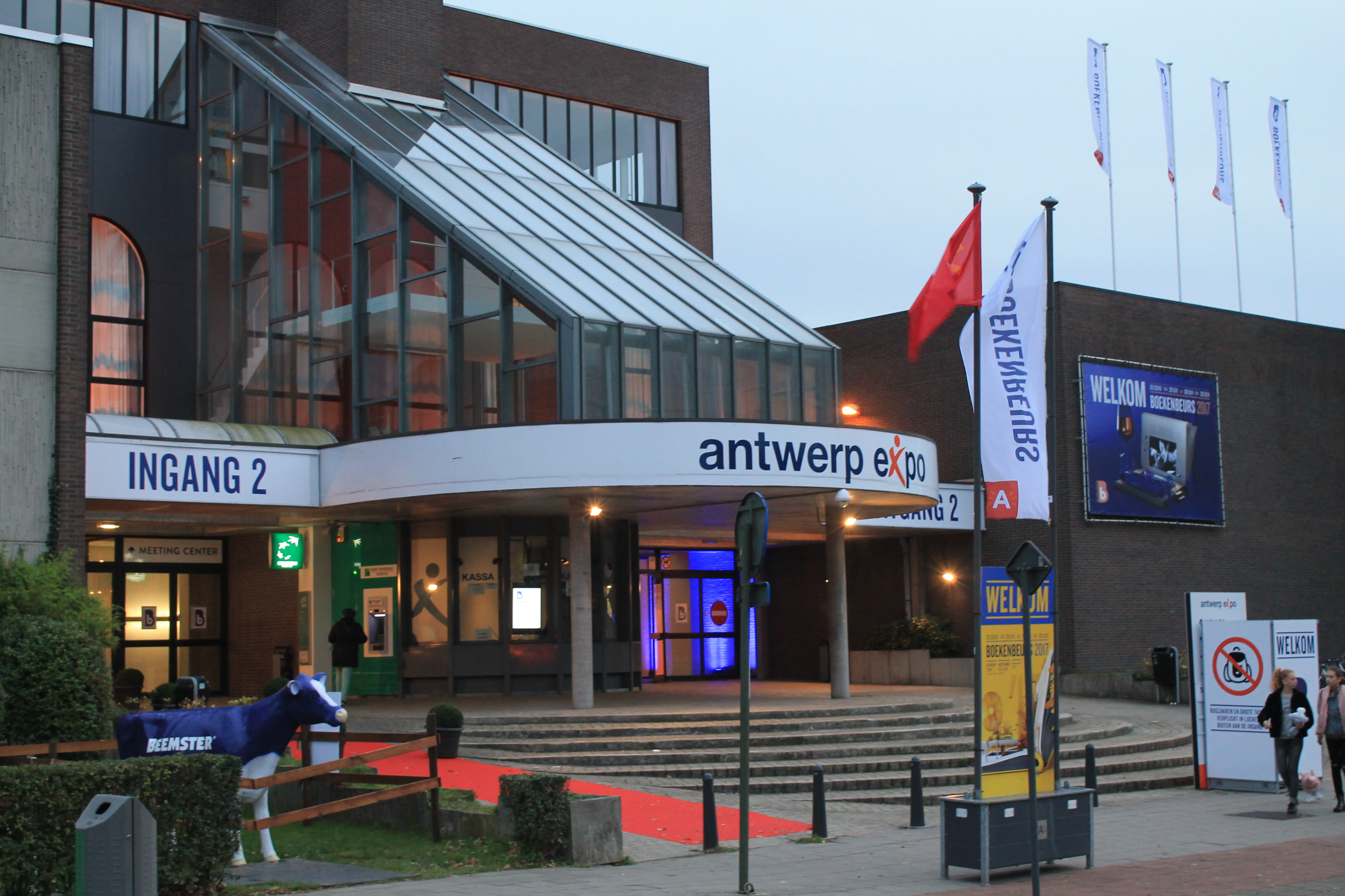 Book fair in Antwerp Expo